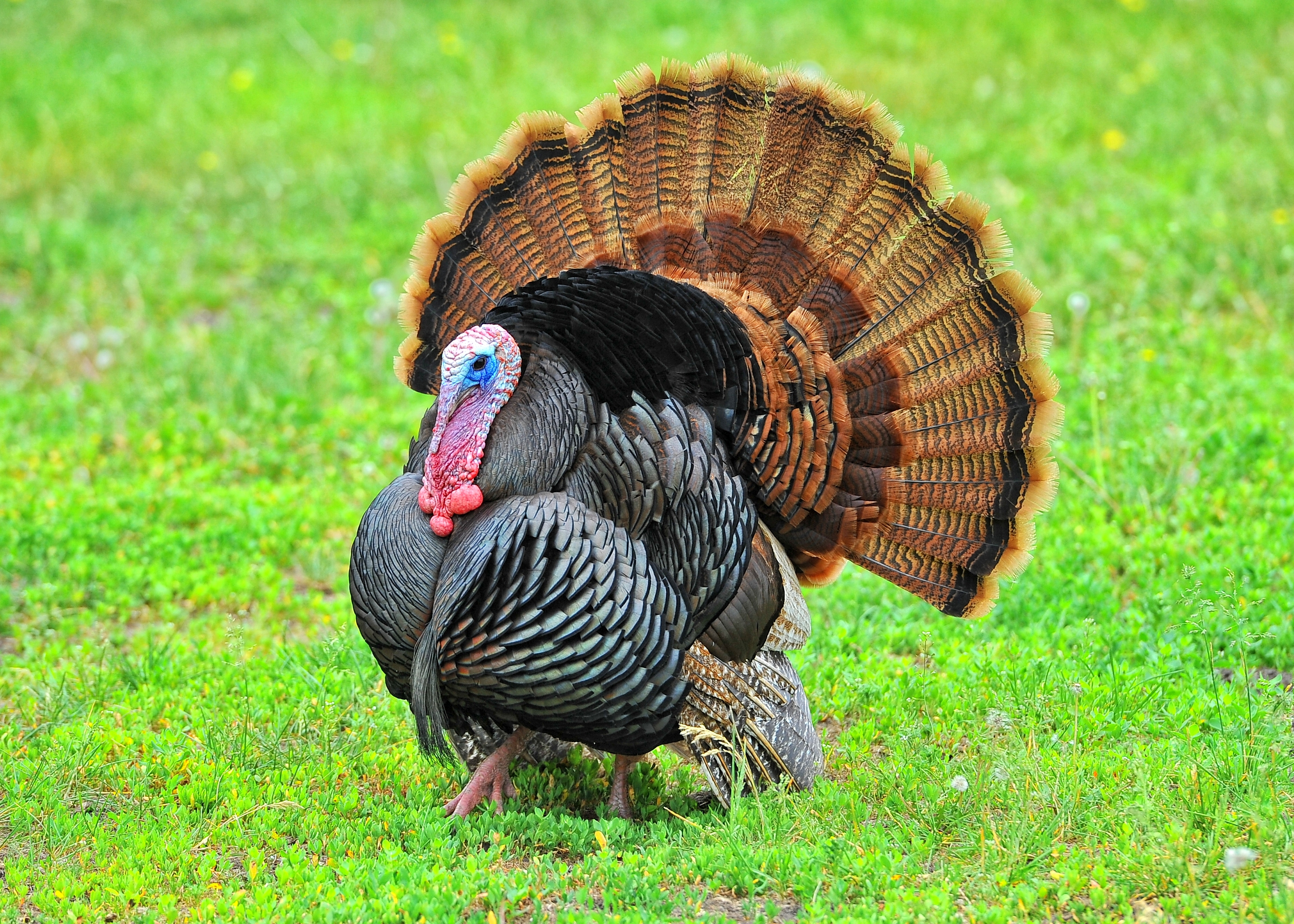 A wild turkey spotted in a manitoban provincial park